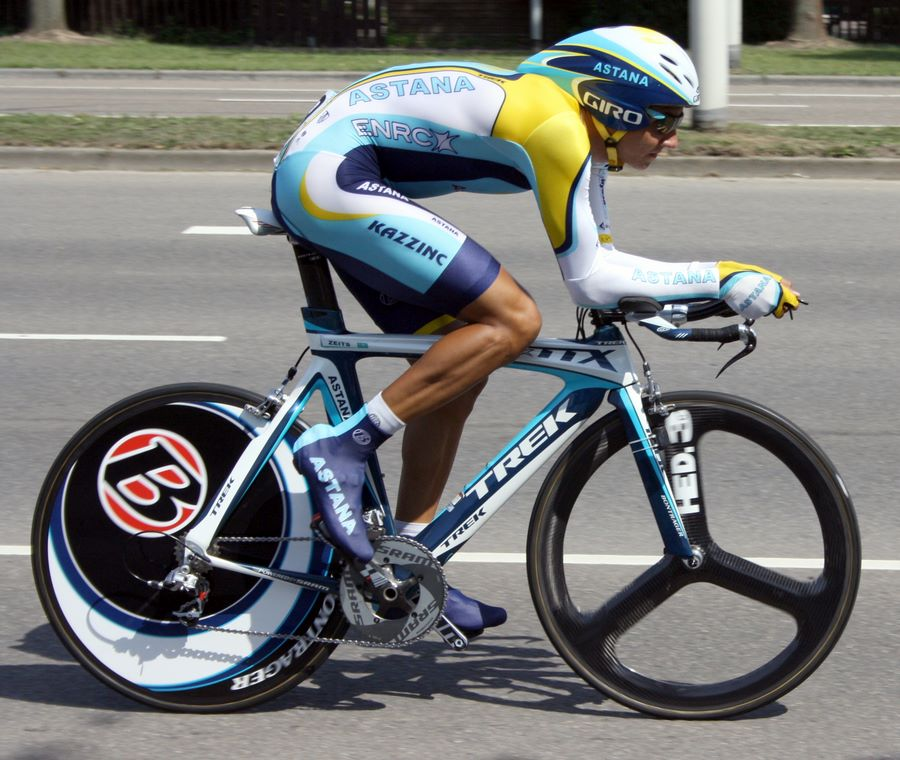 Andrey Zeits at the 2009 Eneco Tour prologue